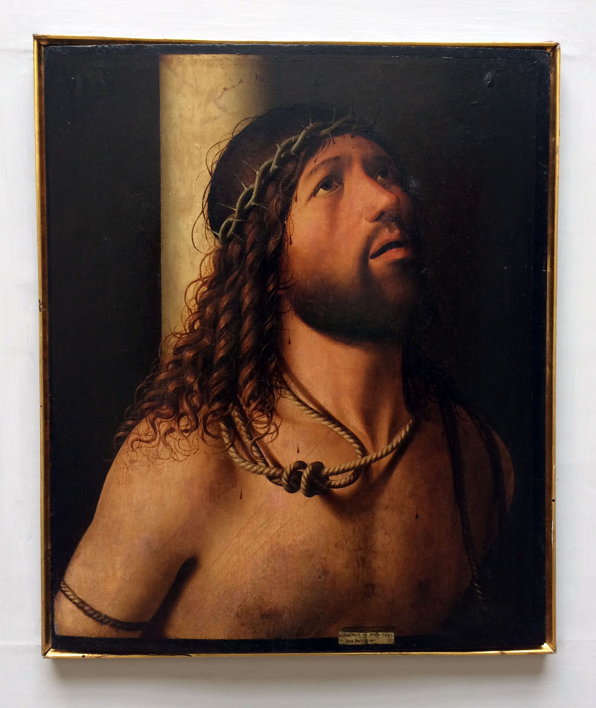 Christ at the Column